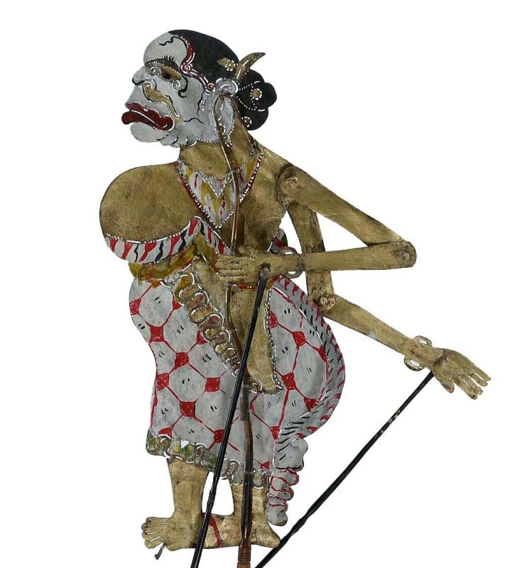 Wayang figure